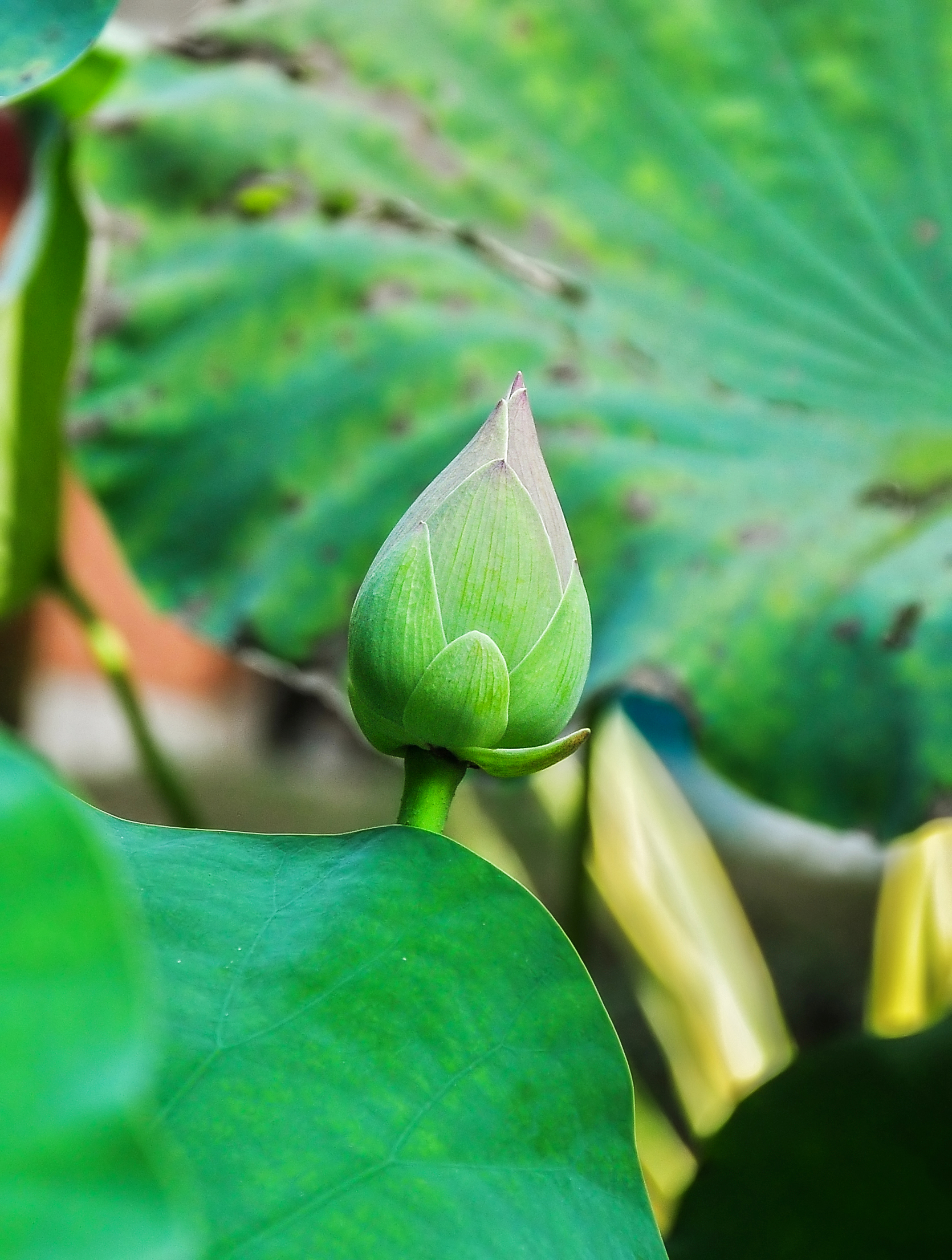 Nelumbo nucifera flower bud.